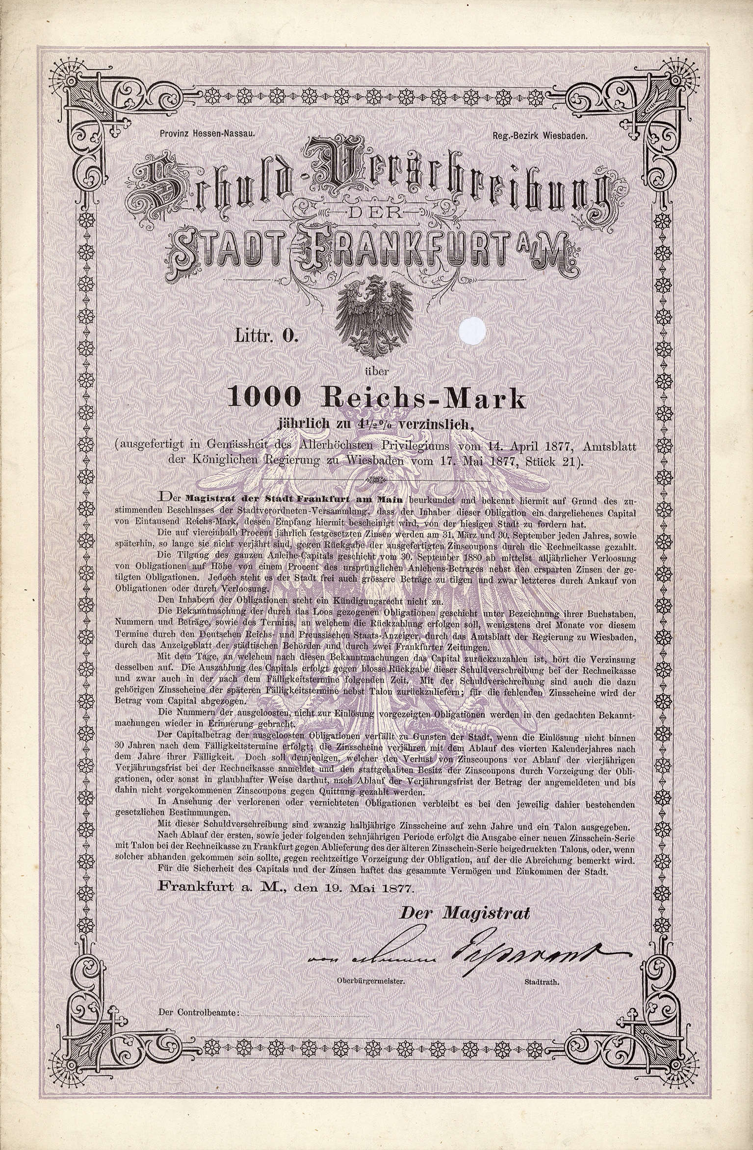 Bond of the City of Frankfort/Main, issued 19. May 1877